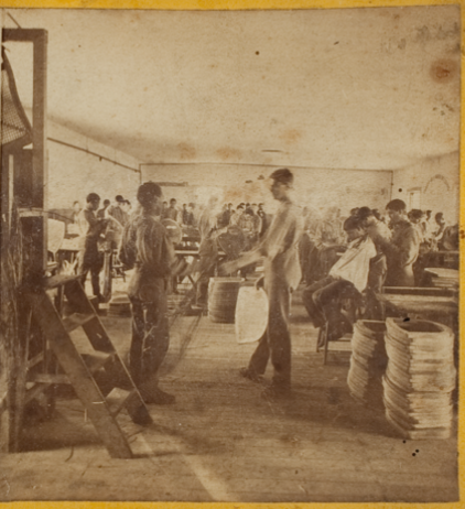 Chair Workshop 1871